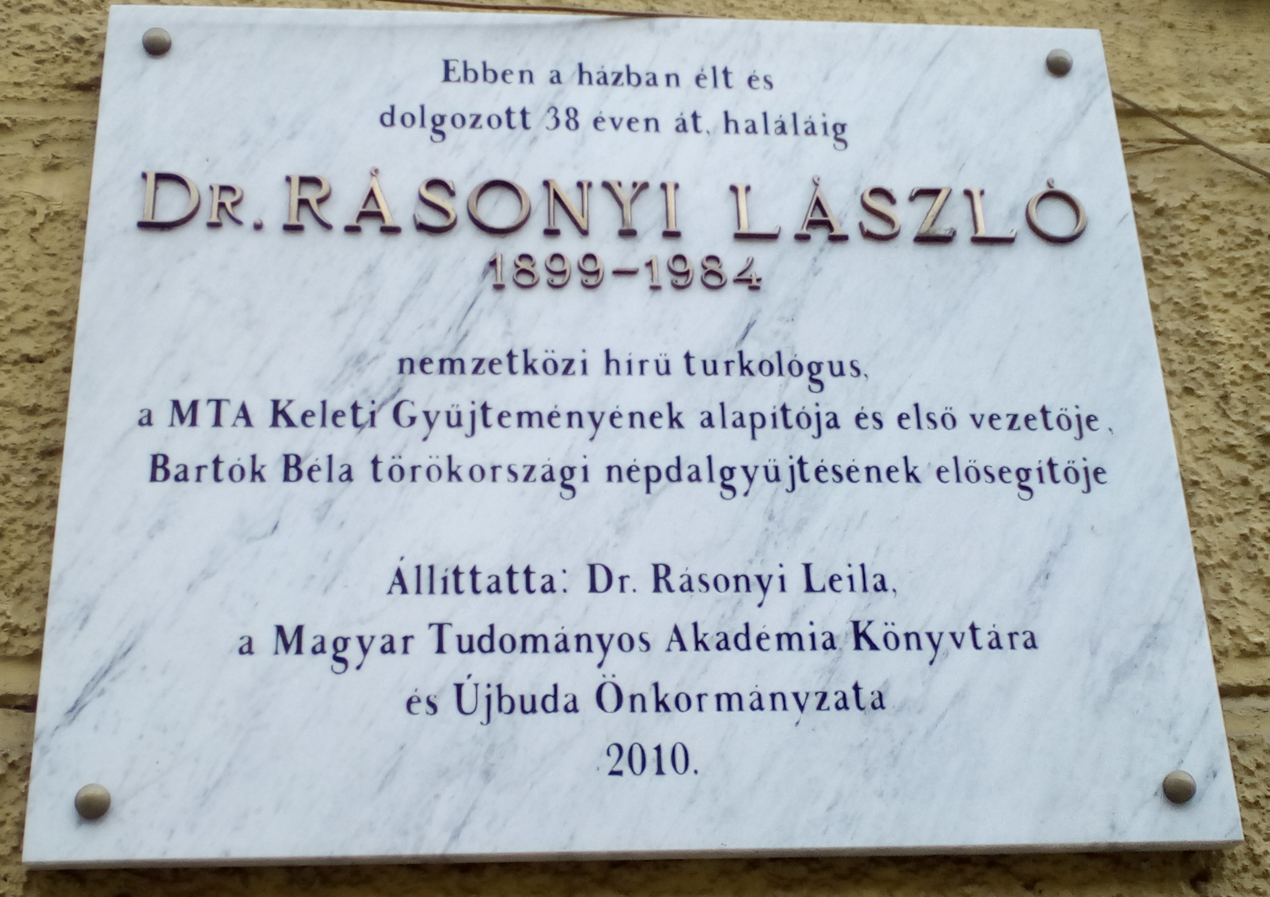 Dr. László Rásonyi commemorative plaque in Budapest District XI, Zenta Street No 5.